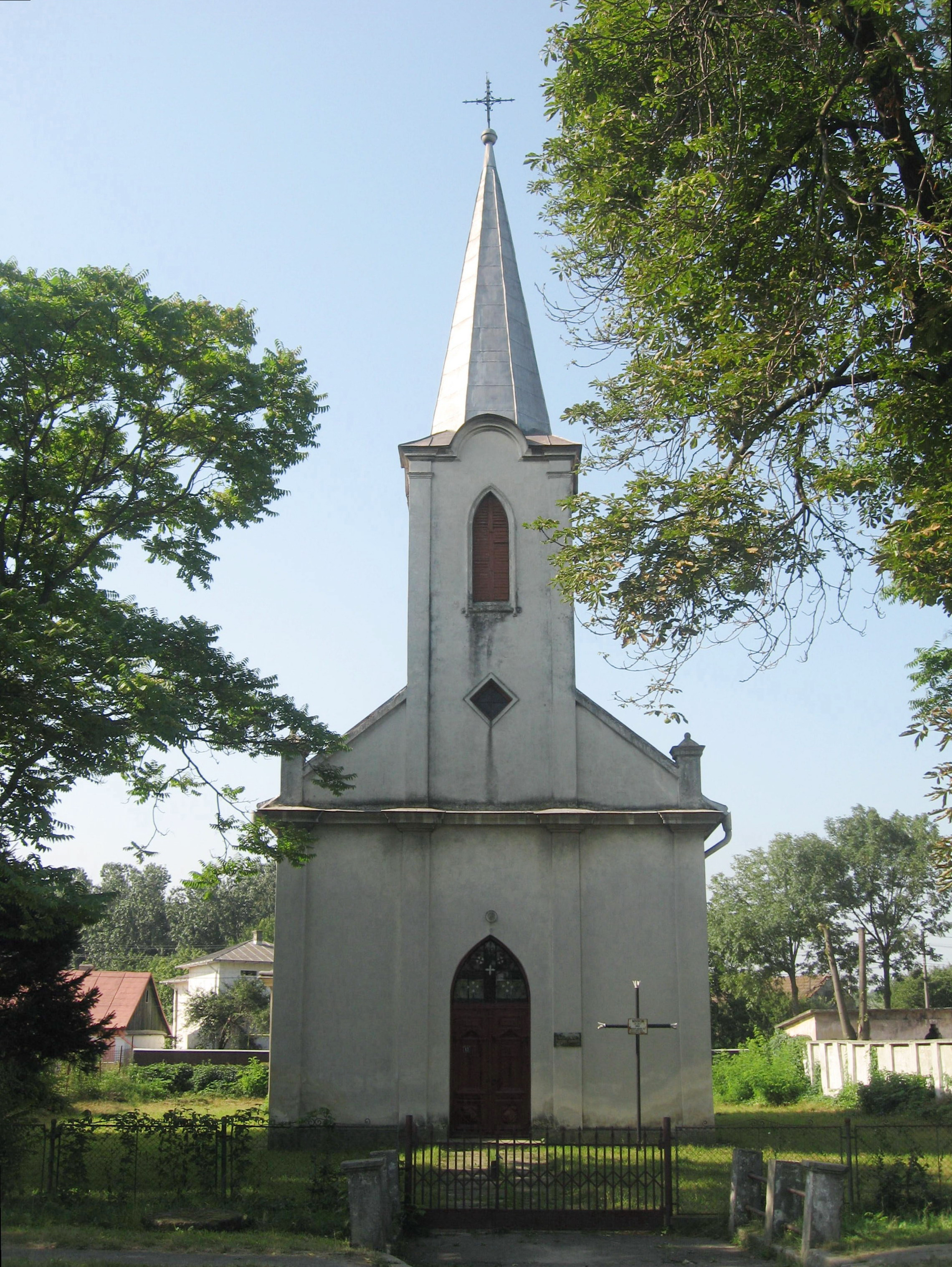 St. Elizabeth Roman Catholic Church in Iţcani, Suceava.